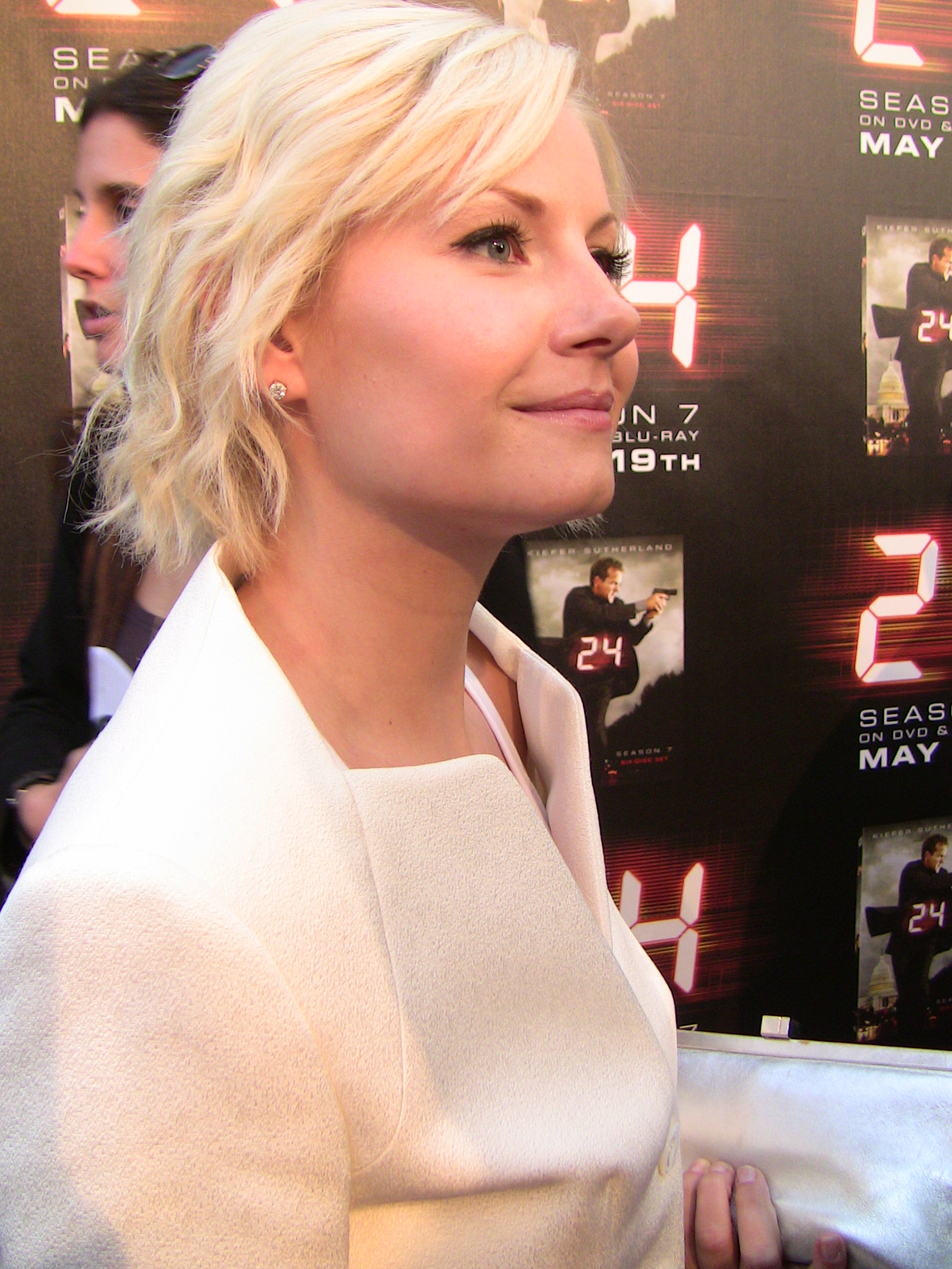 Elisha Cuthbert at the 24 Finale Screening - Wadsworth Theater, Los Angeles, Calif. - May 12, 2009